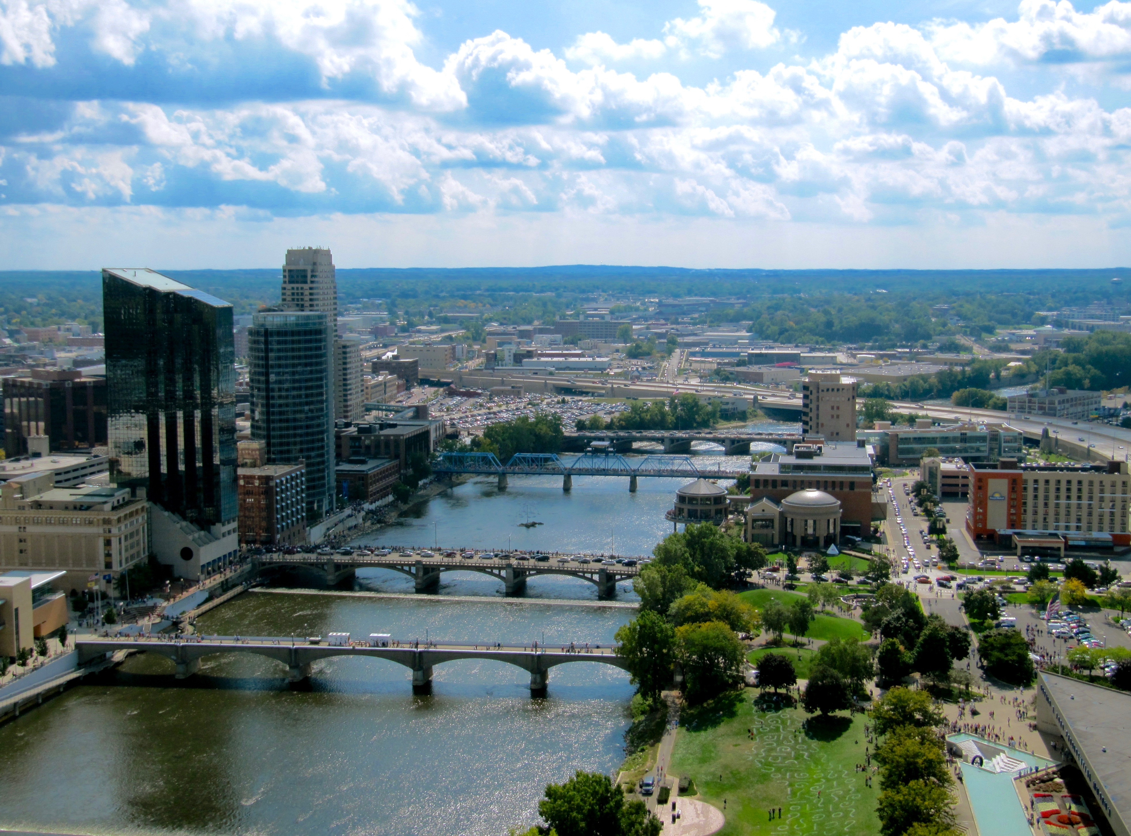 Downtown Grand Rapids from the 28th floor of the River House Condominiums